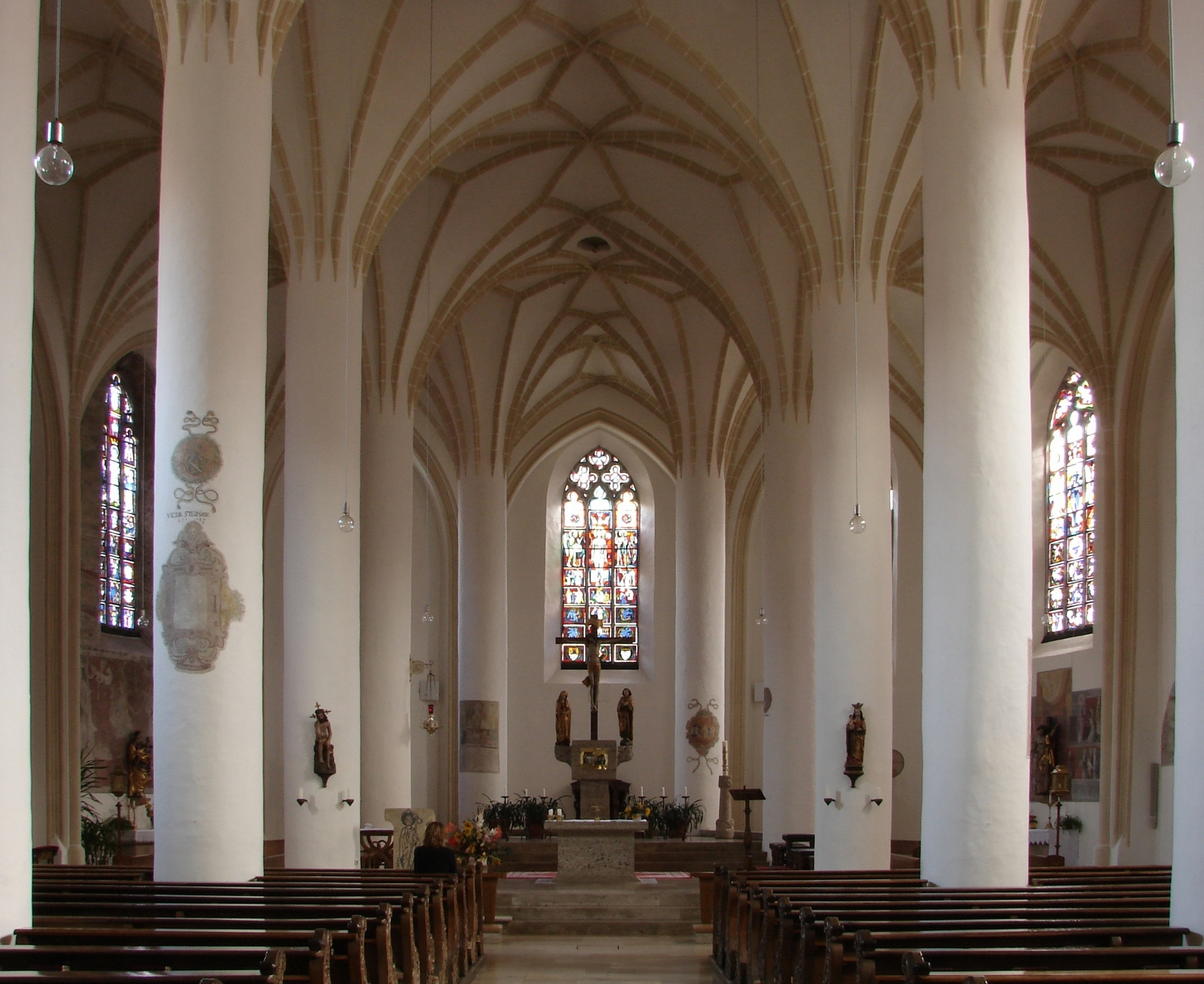 Schrobenhausen, Interior of St. Jacob's church, 15th century